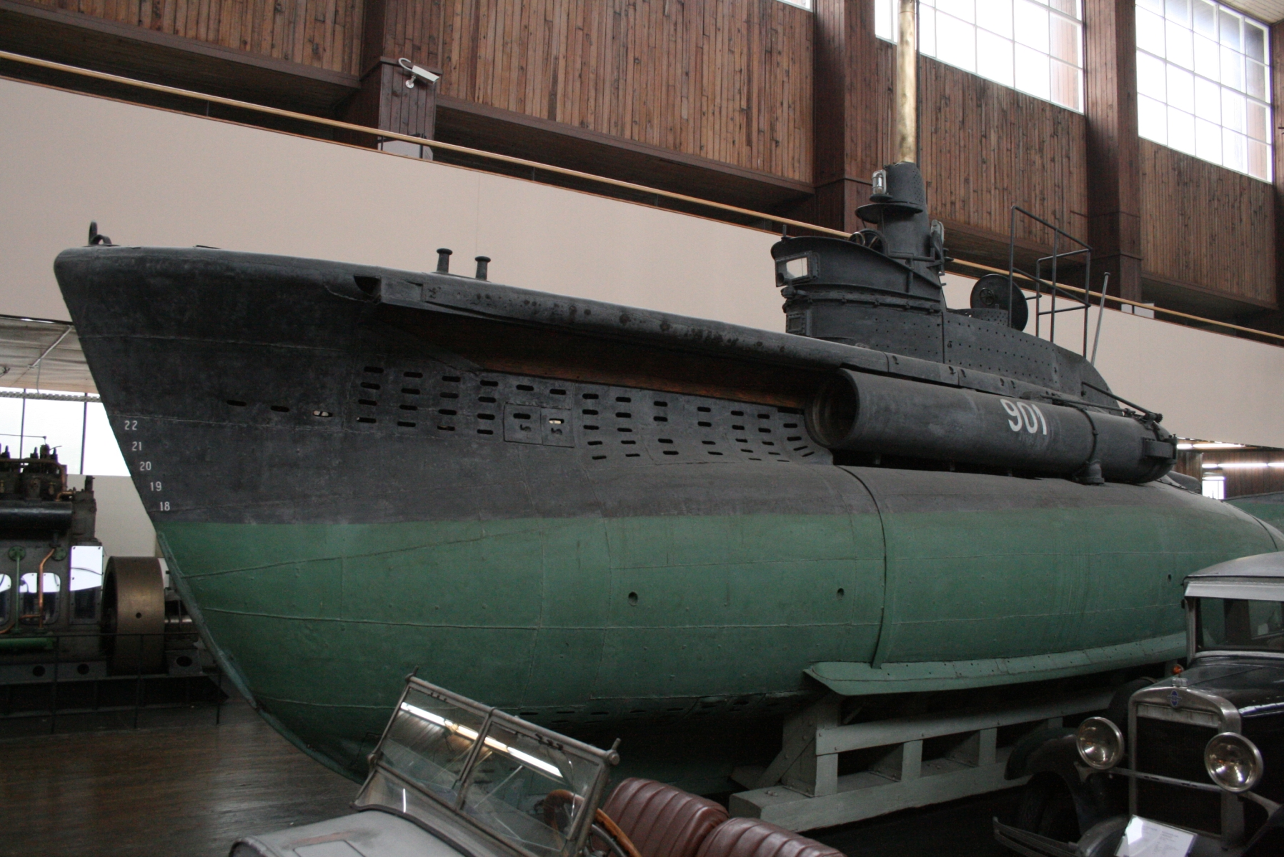 Mališan submarine in Zagreb museum originally the italian CB 20